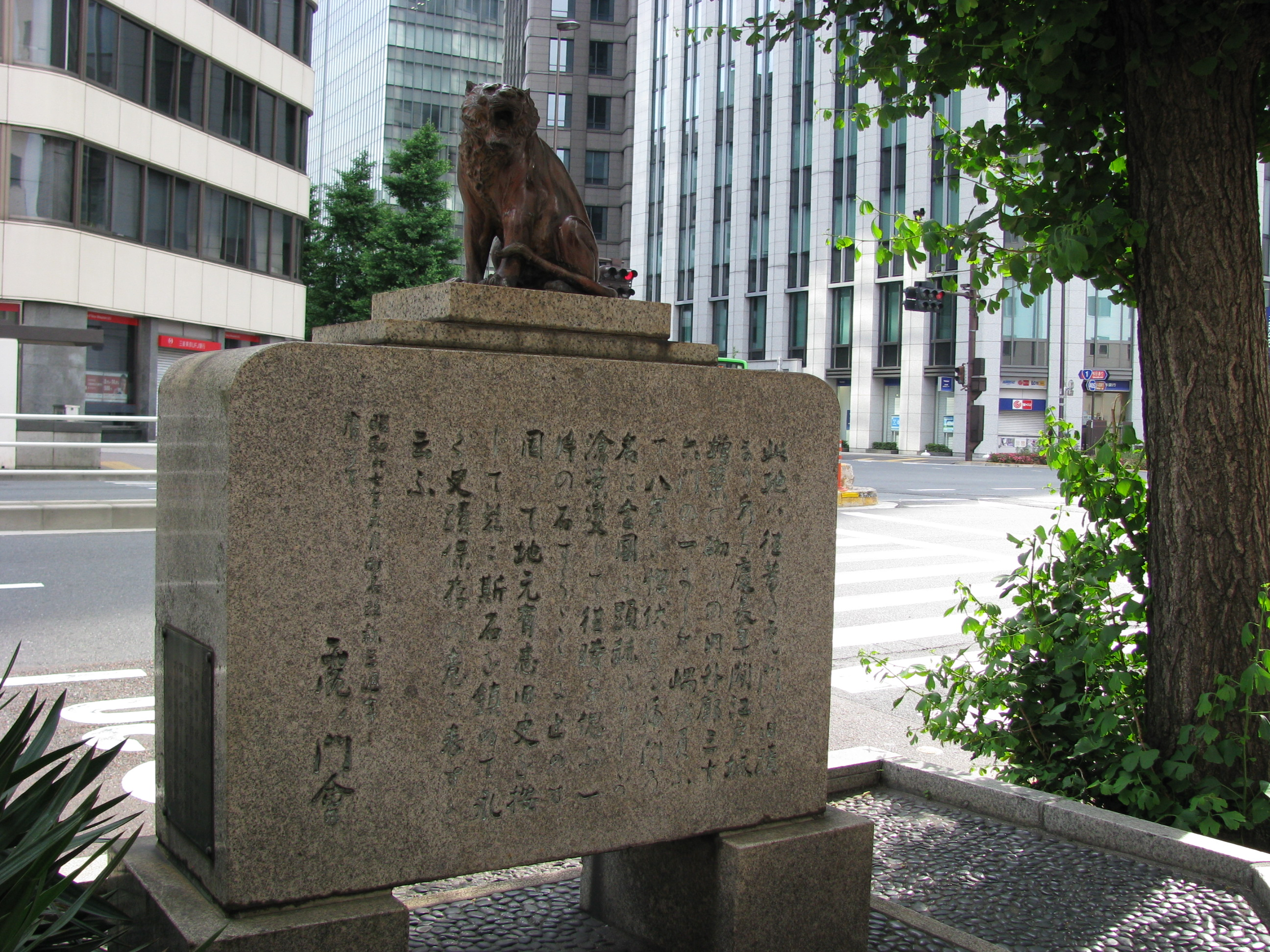 The Toranomon (Tiger's Gate) was gate of Edo-jō, located in Minato, Tokyo, Japan.